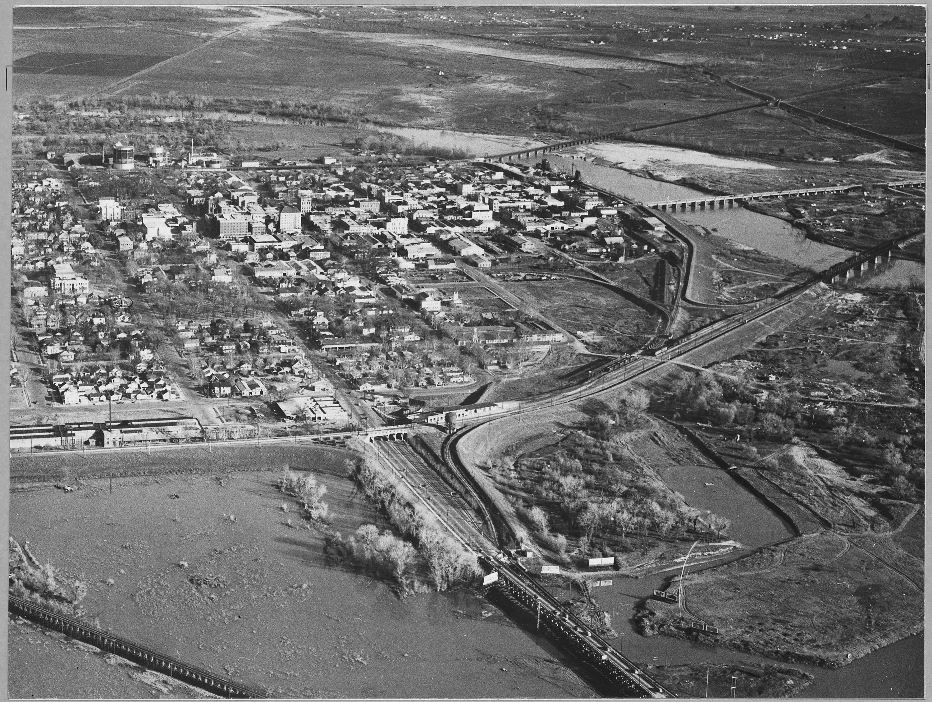 Scope and content: Full caption reads as follows: Olivehurst, 2 miles south of Marysville, Yuba County, California. Air view of the city of Marysville, population 5,763, county seat of Yuba County. The rural shacktown of Olivehurst is situated two and one-half miles from this town, beyond the incorporated district. Marysville is now the trading center of the important peach growing section of the Sacramento Valley. Established in 1848, it was a boom town during the early mining days. The squatter settlement photographed...is located on the right bank of middle bridge, or D St. Bridge.... A fast developing rural shacktown, Linda, seen in distance at right.